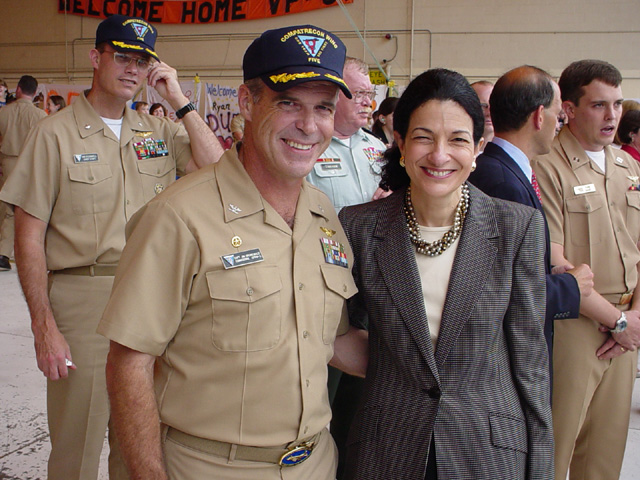 August 4, 2003 - Olympia Snowe with "Maine's Heroes".